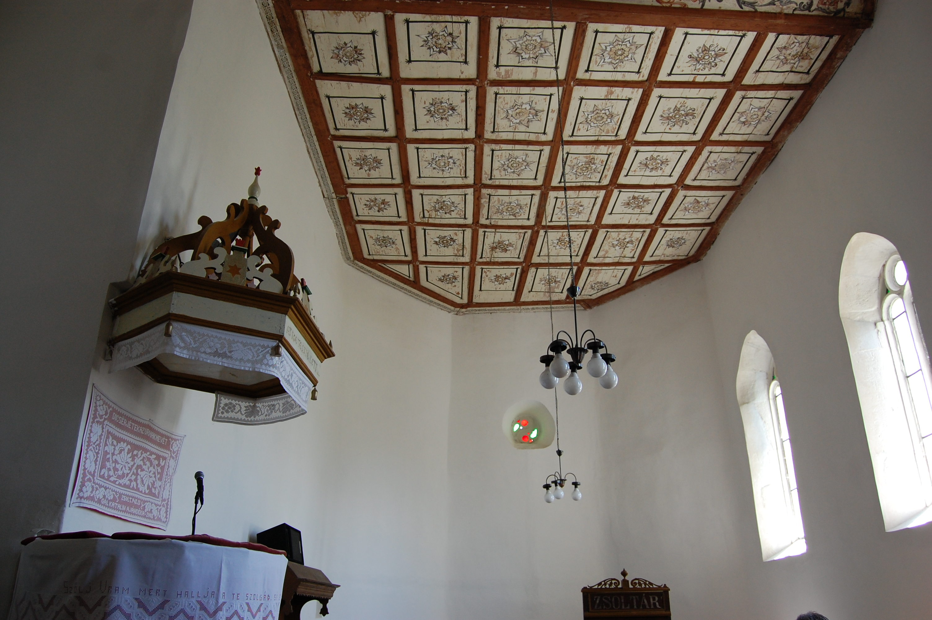 Reformed Curch in Horoatul Crasnei (Romania)